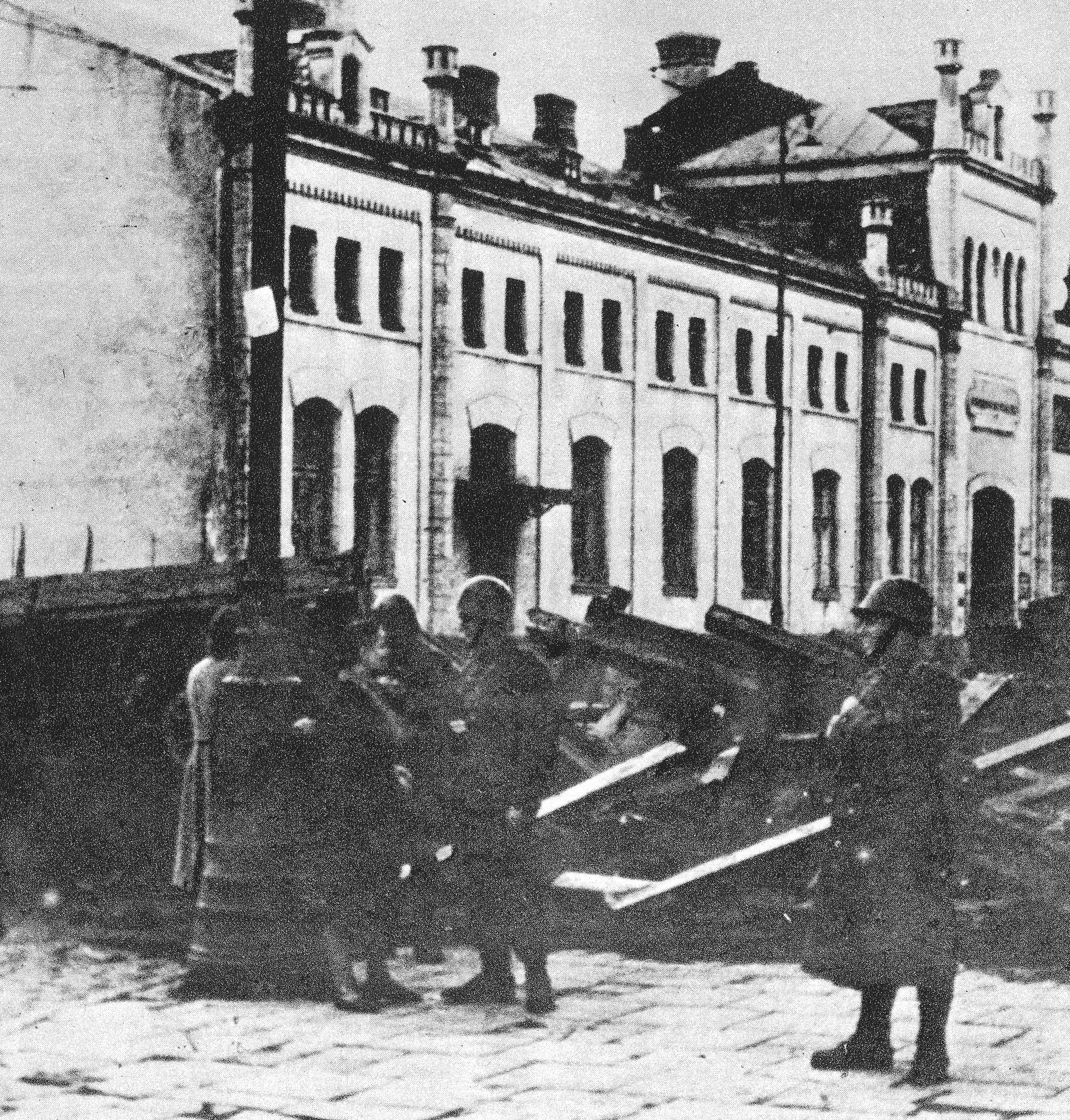 Barricade near Haberbusch and Schiele brewery near 59 Żelazna Street in Warsaw